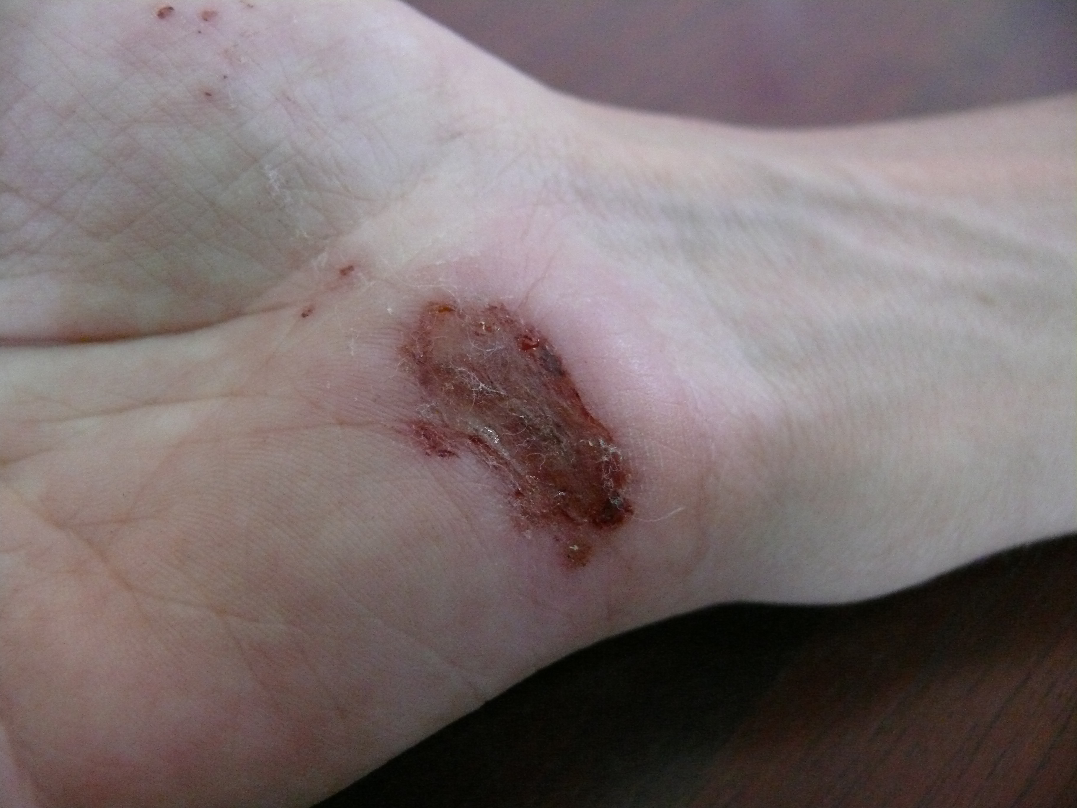 Wound on palm of hand two days after falling off a bike onto concrete. Previous photo: Day 1: Image:Wound on palm of hand.jpg Following photos: Day 3: Image:Wound on palm of hand - day 3.jpg Day 4: Image:Wound on palm of hand - day 4.jpg Day 5: Image:Wound on palm of hand - day 5.jpg Day 6: Image:Wound on palm of hand - day 6.jpg Day 7: Image:Wound on palm of hand - day 7.jpg Day 8: Image:Wound on palm of hand - day 8.jpg Day 9: Image:Wound on palm of hand - day 9.jpg Day 10: Image:Wound on palm of hand - day 10.jpg Day 11: Image:Wound on palm of hand - day 11.jpg Day 12: Image:Wound on palm of hand - day 12.jpg Day 13: Image:Wound on palm of hand - day 13.jpg Day 14: Image:Wound on palm of hand - day 14.jpg Day 15: Image:Wound on palm of hand - day 15.jpg Day 16: Image:Wound on palm of hand - day 16.jpg Day 17: Image:Wound on palm of hand - day 17.jpg Day 18: Image:Wound on palm of hand - day 18.jpg Day 19: Image:Wound on palm of hand - day 19.jpg Day 20: Image:Wound on palm of hand - day 20.jpg